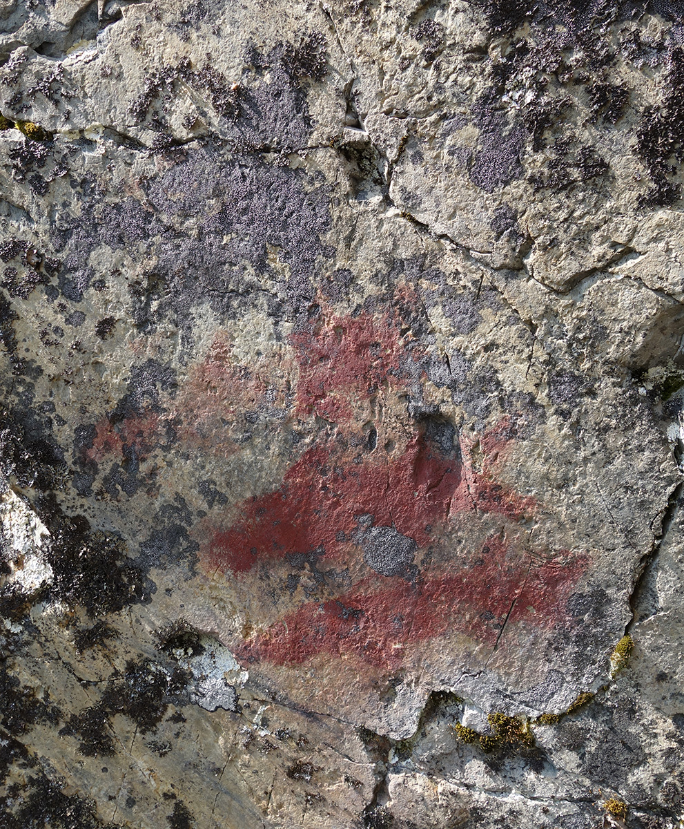 Rock paintings on Mount Finnforsberget, Skellefteå Municipality, Västerbotten, Sweden, showing three salmons.